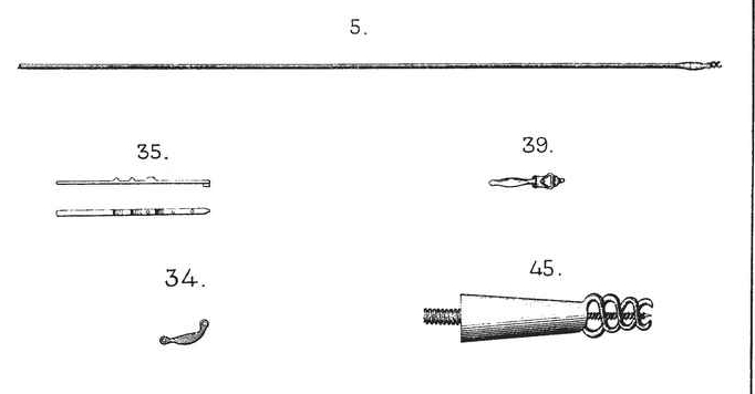 Ramrod (no. 5) and ball-puller (no. 45)